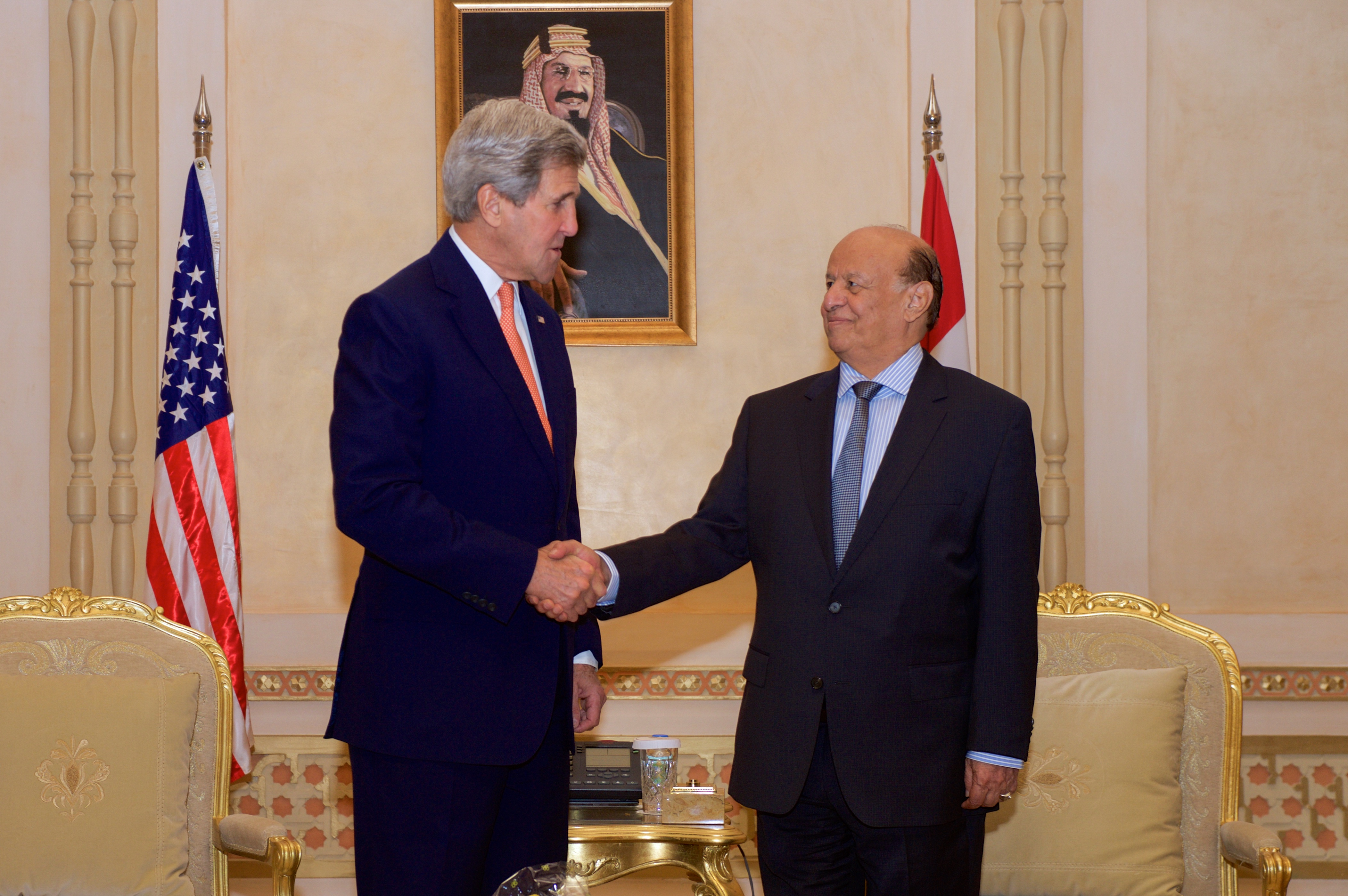 U.S. Secretary of State John Kerry shakes hands with Yemeni President Abd Rabbuh Mansur Hadi before the two held a bilateral meeting in Riyadh, Saudi Arabia, on May 7, 2015. [State Department photo/ Public Domain]